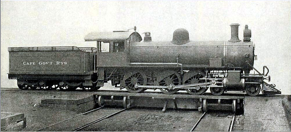 Cape Government Railways Class 6 (4-6-0) Later South African Railways Class 6G (4-6-0)